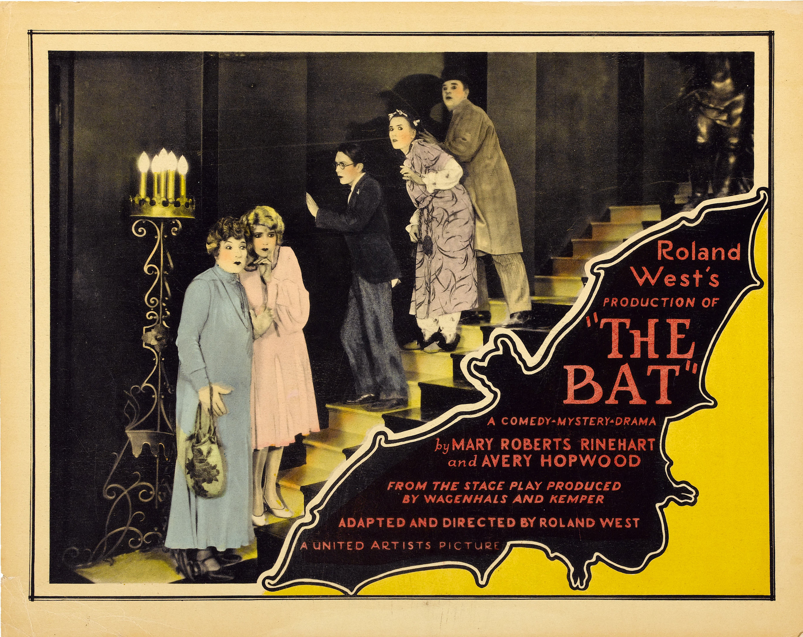 Lobby card for The Bat with no copyright marks or notices published on it.